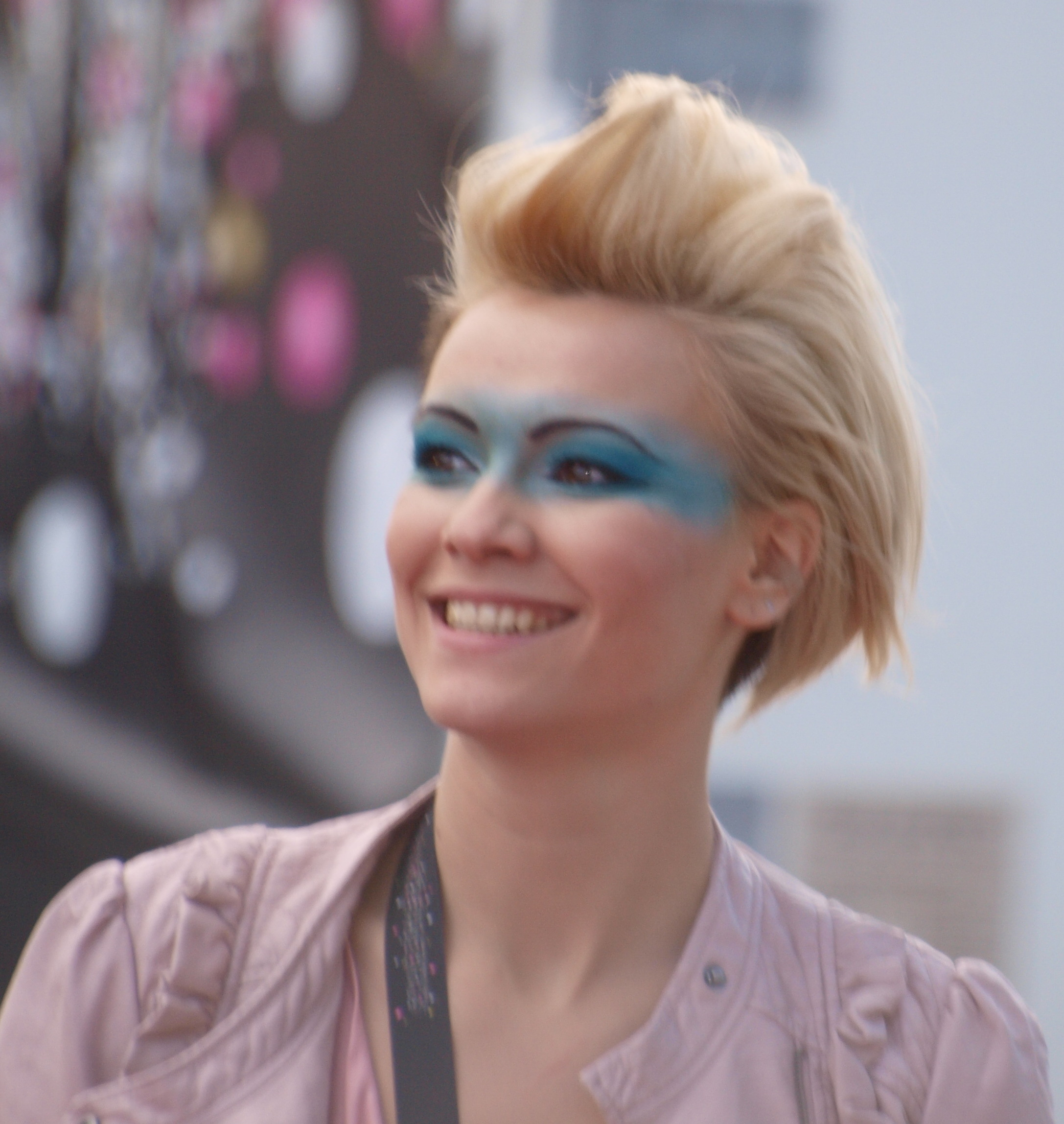 Olia Tira arriving to the ESC final in Oslo 2010